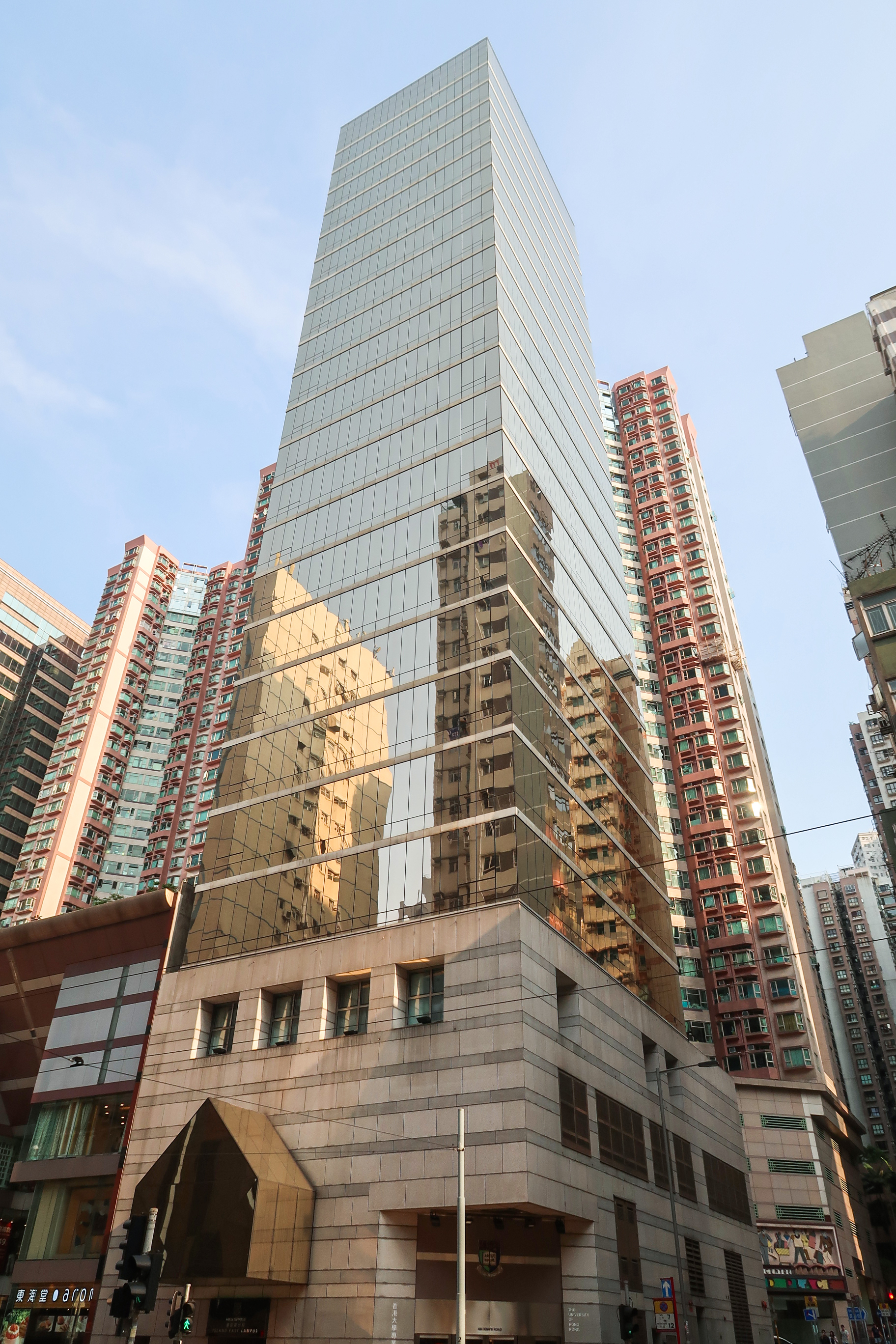 HKU Space Island East Campus